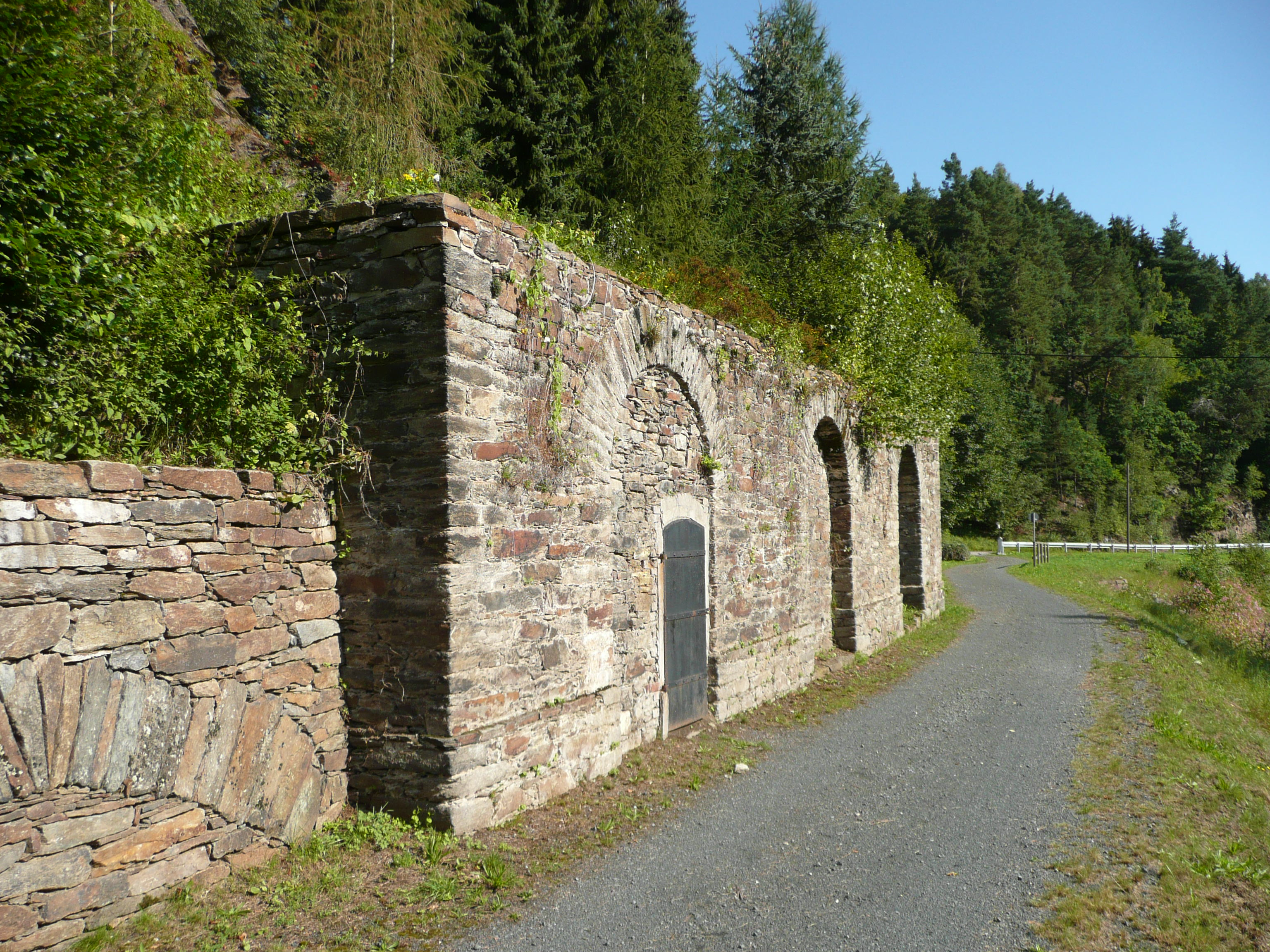 Kahnhebehaus (tub boat lift), near Großvoigtsberg, Saxony